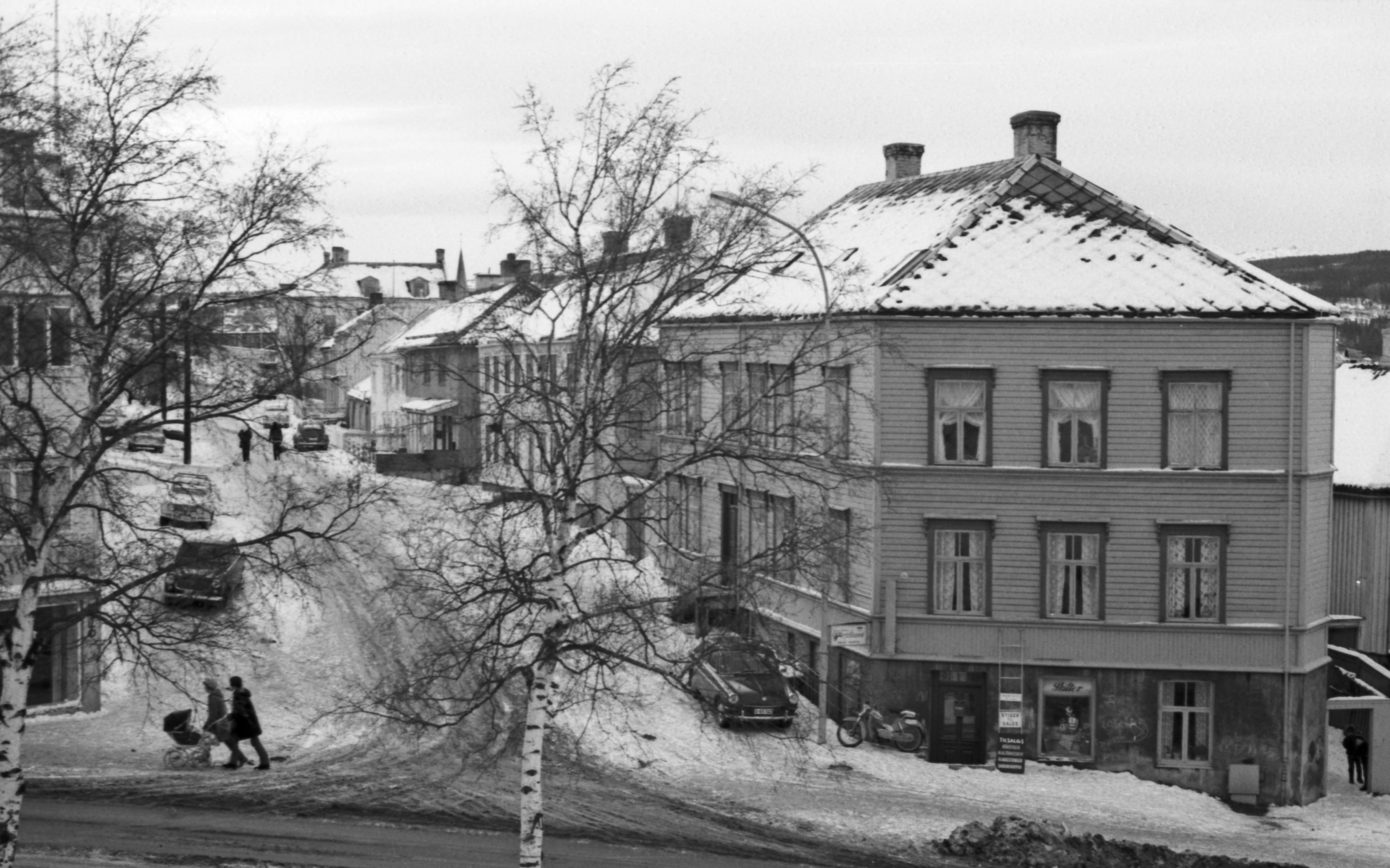 Format: 35 mm sort/hvitt negativ Film: Ilford fp4 Dato / Date: November 1970 Fotograf / Photographer: Asgeir Bell Sted / Place: Møllenberg, Trondheim WikiStrinda: Møllenberg Wikipedia: Møllenberg Eier / Owner Institution: Trondheim byarkiv, The Municipal Archives of Trondheim Arkivreferanse / Archive reference: Tor.H43.P3.F7657, film 139 Merknad: Fra Byantikvarens negativsamling.